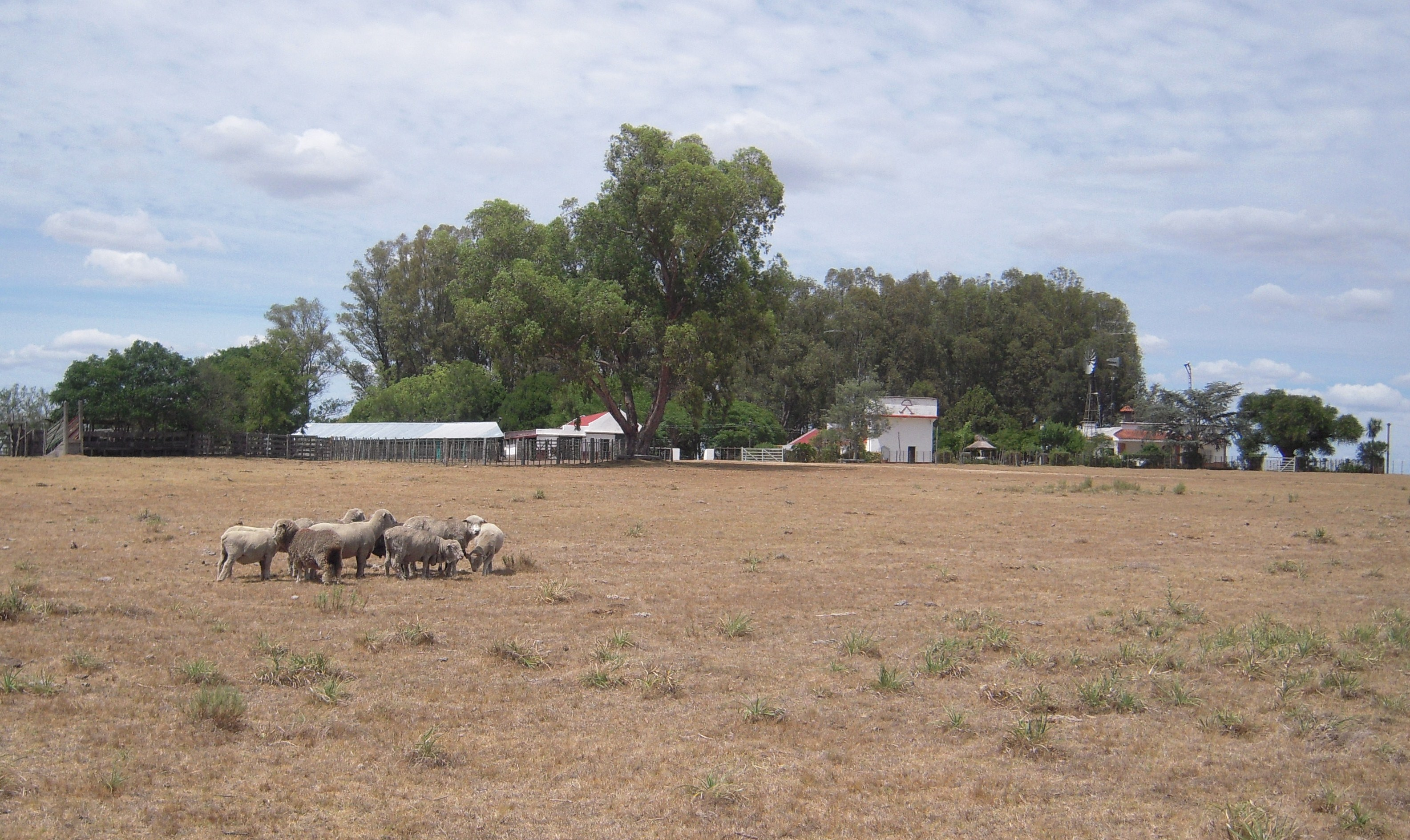 Estancia El Ceibo, one of the pionéers in estancia tourism from mid 1990's. Picture was taken during drought in January, 2009